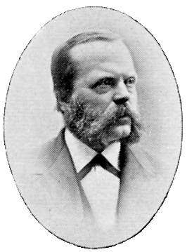 Image scanned from the book "Svenskt Porträttgalleri XX - Arkitekter, Bildhuggare, Målare m.fl. " ("Swedish Portrait Gallery XX - Architects, Sculptors, Painters, ") published 1901